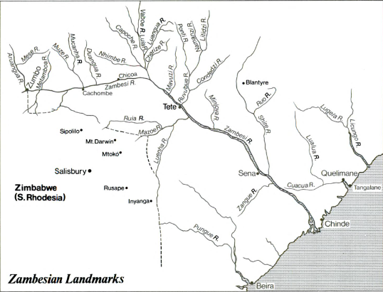 The map of the area in where the Revolt happened (Barue, Mozambique, 1917).